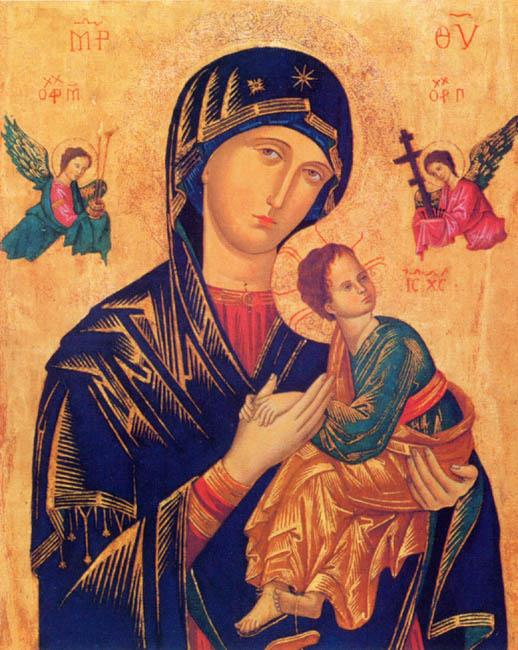 Our Lady of Perpetual Help, Byzantine icon said to be 13th or 14th century